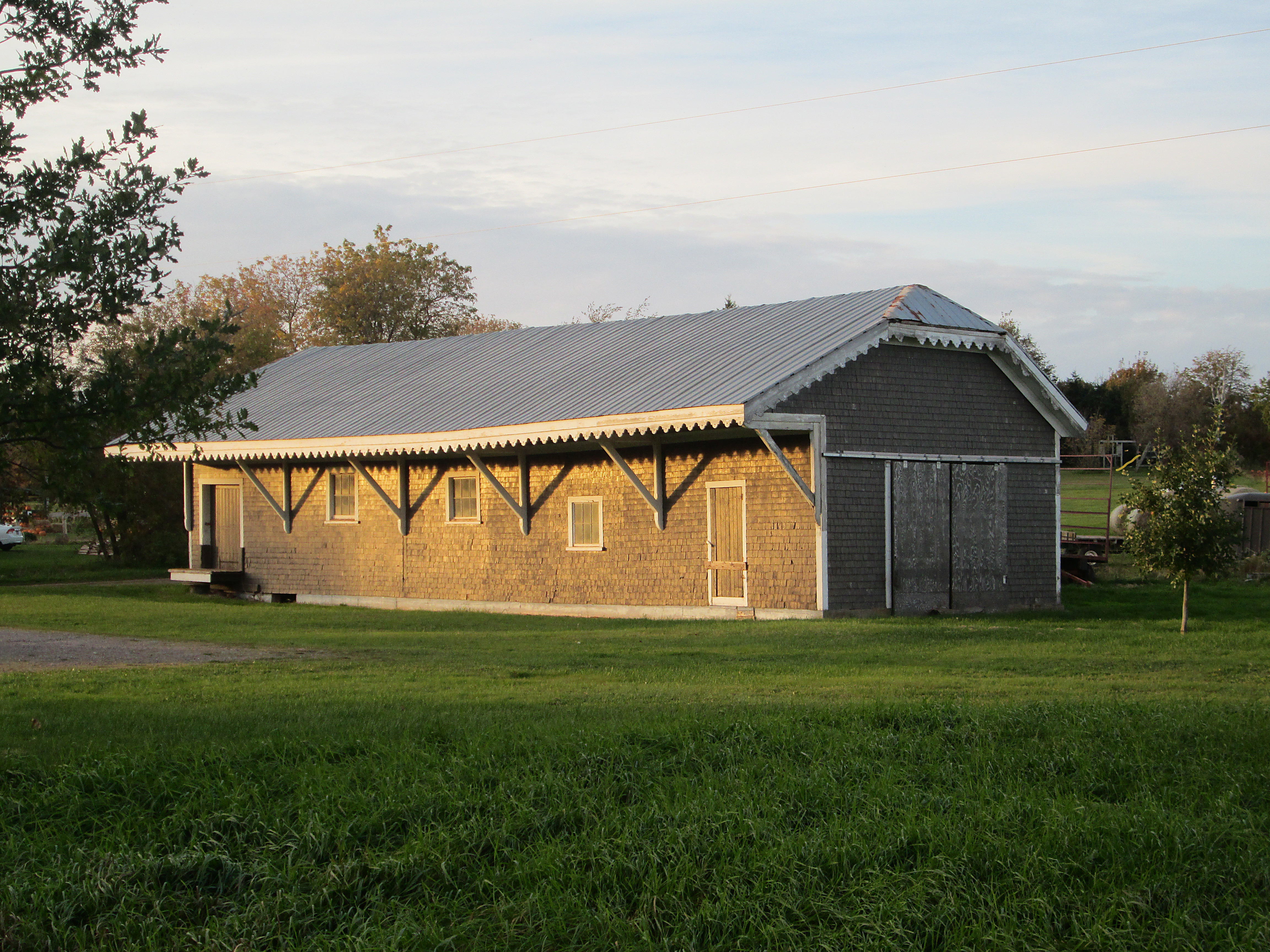 October 14, 2013. Confederation Trail